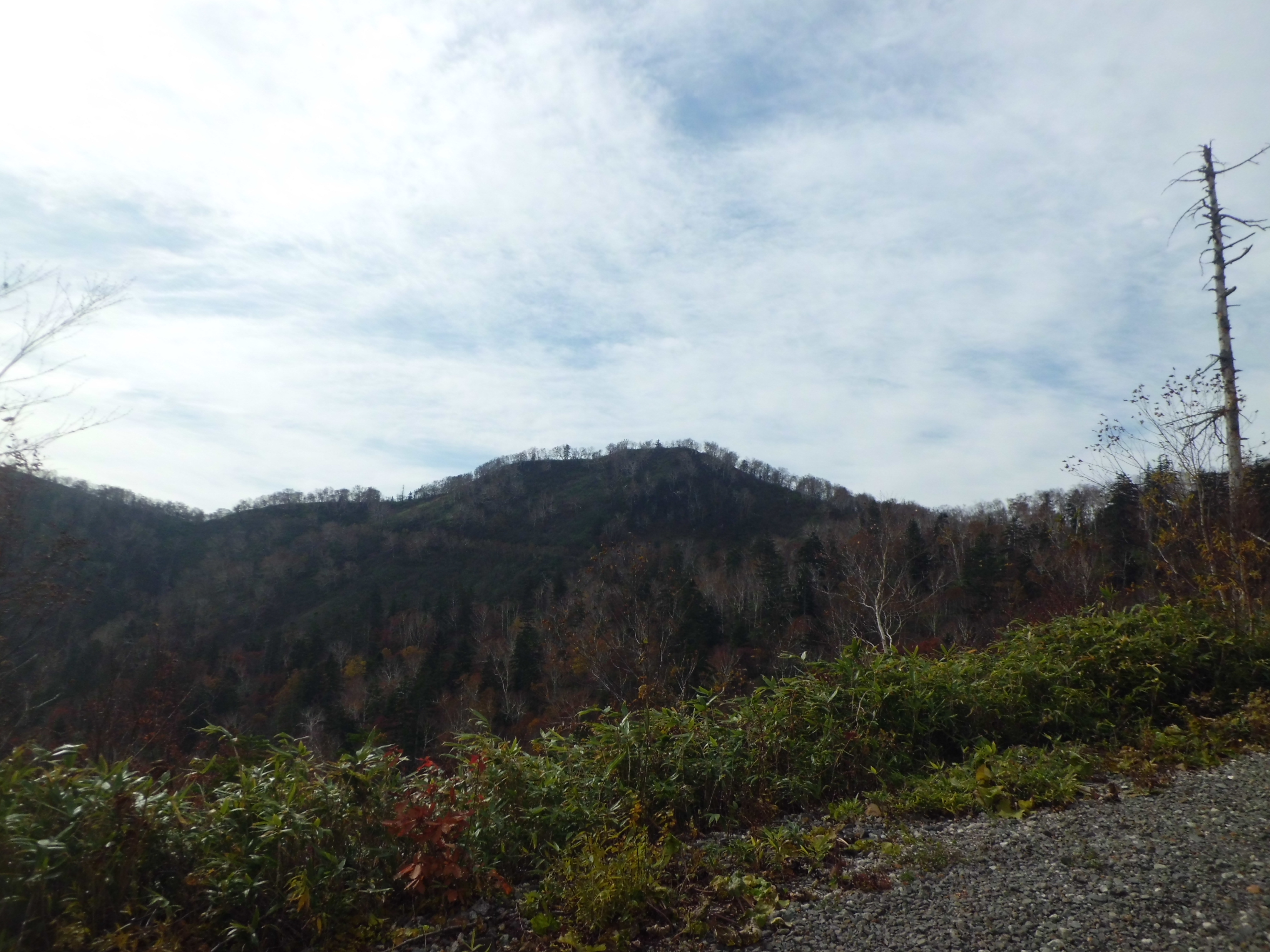 Mount Oku-Teine